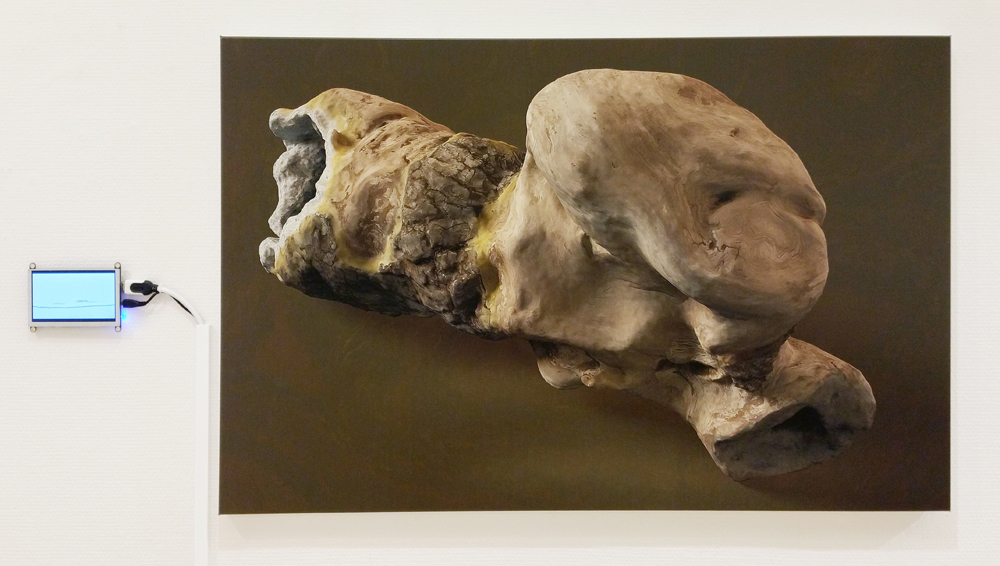 Details from art installation, animation and digital print/3d graphics.